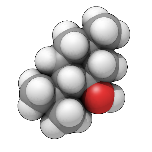 SpaceFill representation of menthol molecule.